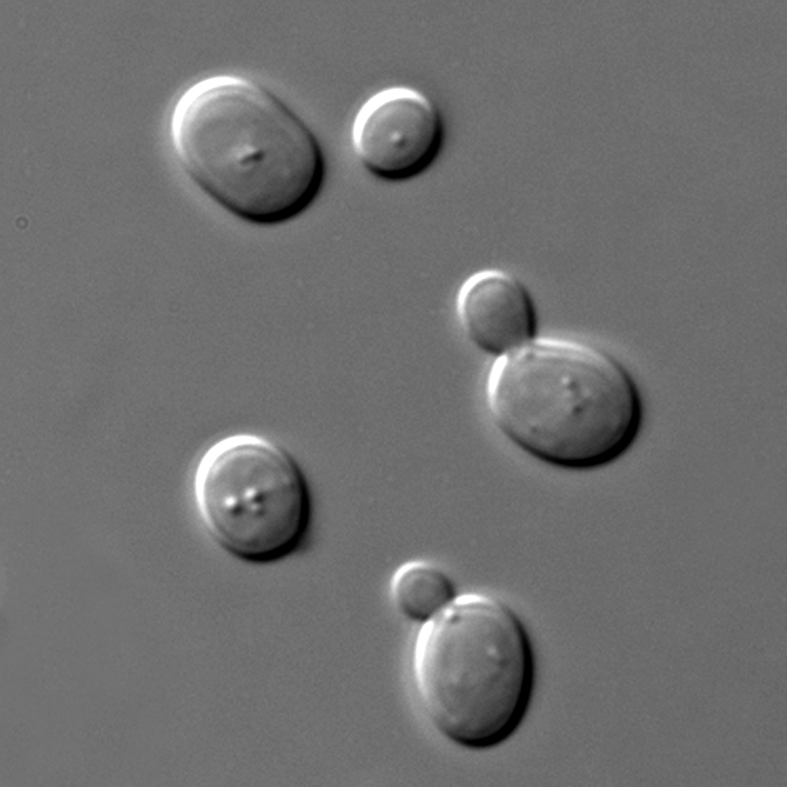 Saccharomyces cerevisiae cells in DIC microscopy. Imaging was performed with the Olympus BX61 microscope and a UPlanSApo 100× NA 1.40 oil immersion objective (Olympus). Pictures were acquired at room temperature in synthetic complete medium with a camera (SPOT; Diagnostic Instruments, Inc.) using MetaMorph software (MDS Analytical Technologies).